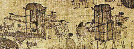 Close-up detail of the Chinese cityscape handscroll Along the River During Qingming Festival, ink and colors on silk, 25.5 × 525 cm.